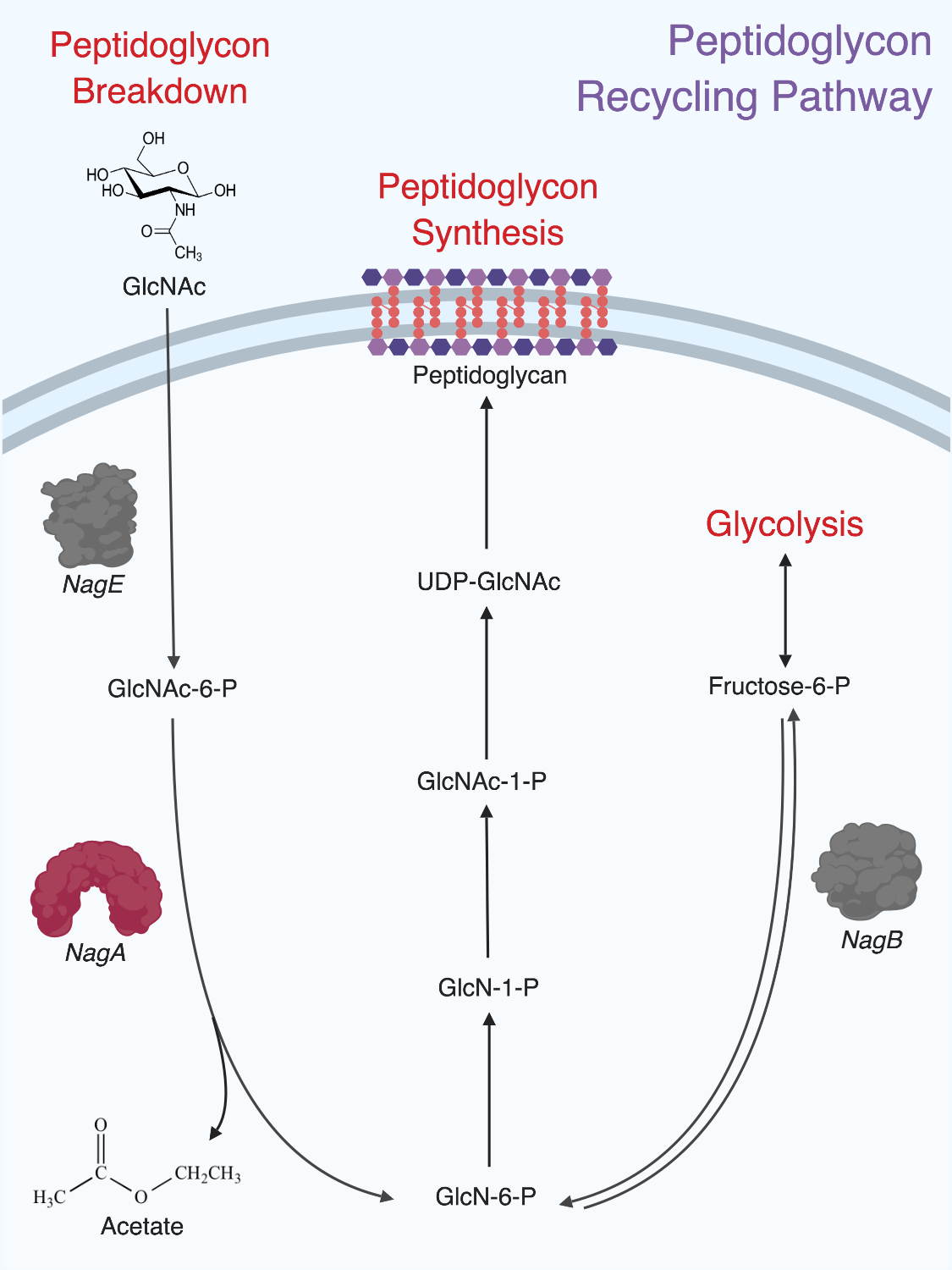 Conversion of GlcNAc into GlcN-6-P to be either converted into a new peptidoglycan for the cell wall or Fructose-6-phosphate for the gluconeogenesis pathway.